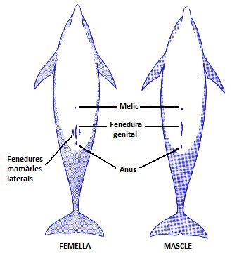 uploaded by--Tursiops 17:35, 20 June 2007 (UTC) taken from (for the authorization see here)